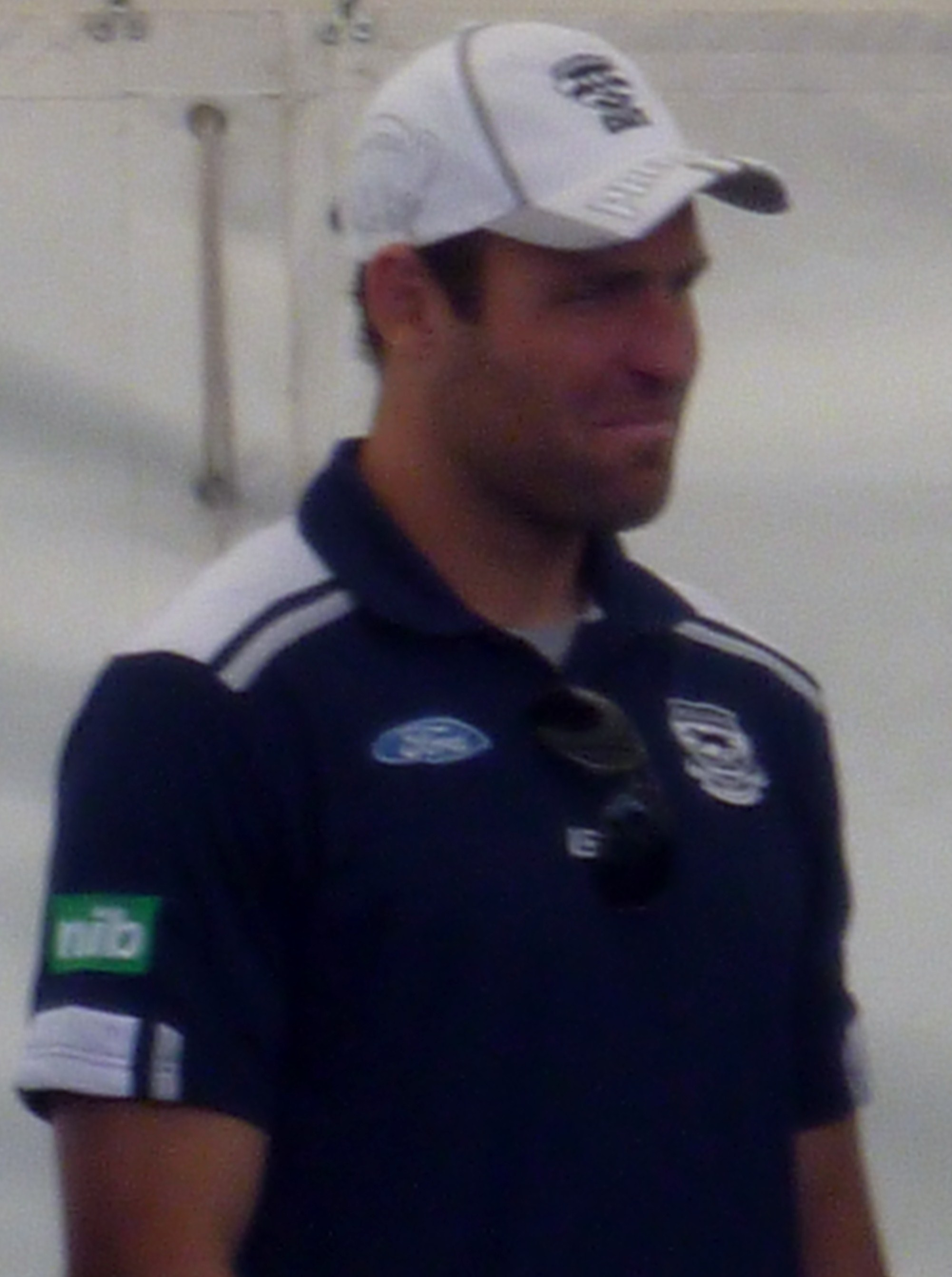 Brad Ottens at the Geelong Football Club's 2011 AFL Premiership victory parade in Geelong, Victoria, Australia.